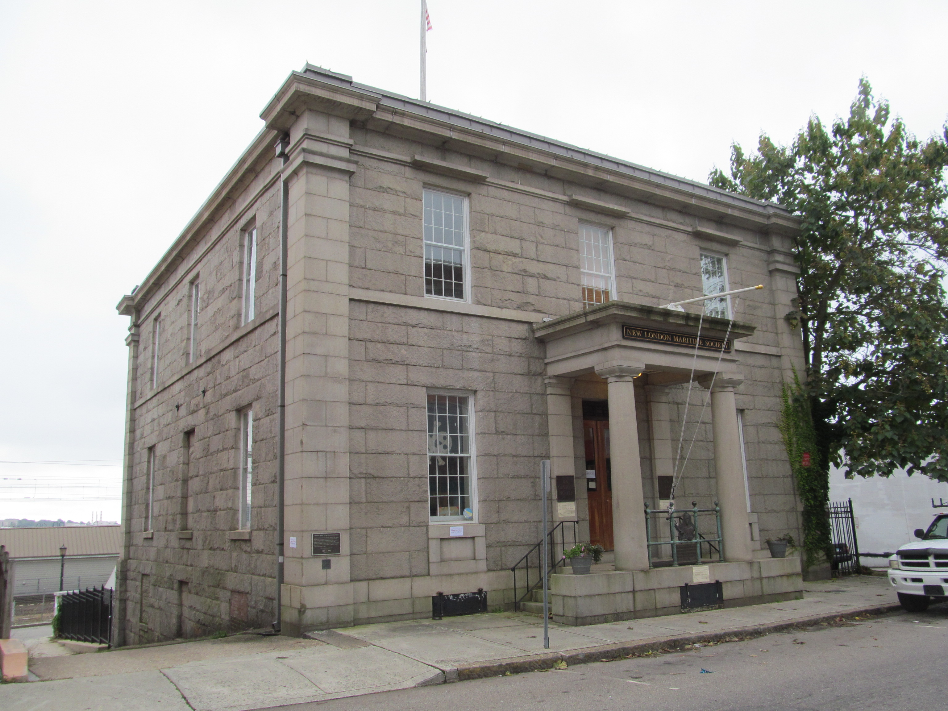 New London Customhouse, New London Connecticut